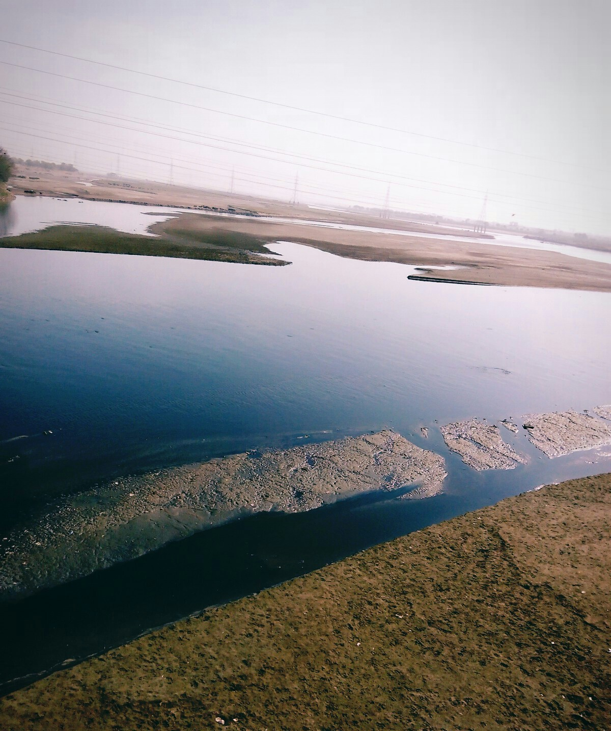 Ravi is a transboundary river crossing northwestern India and eastern Pakistan. It is one of six rivers of the Indus System in Punjab region. The waters of Ravi are allocated to India under Indus Water Treaty.